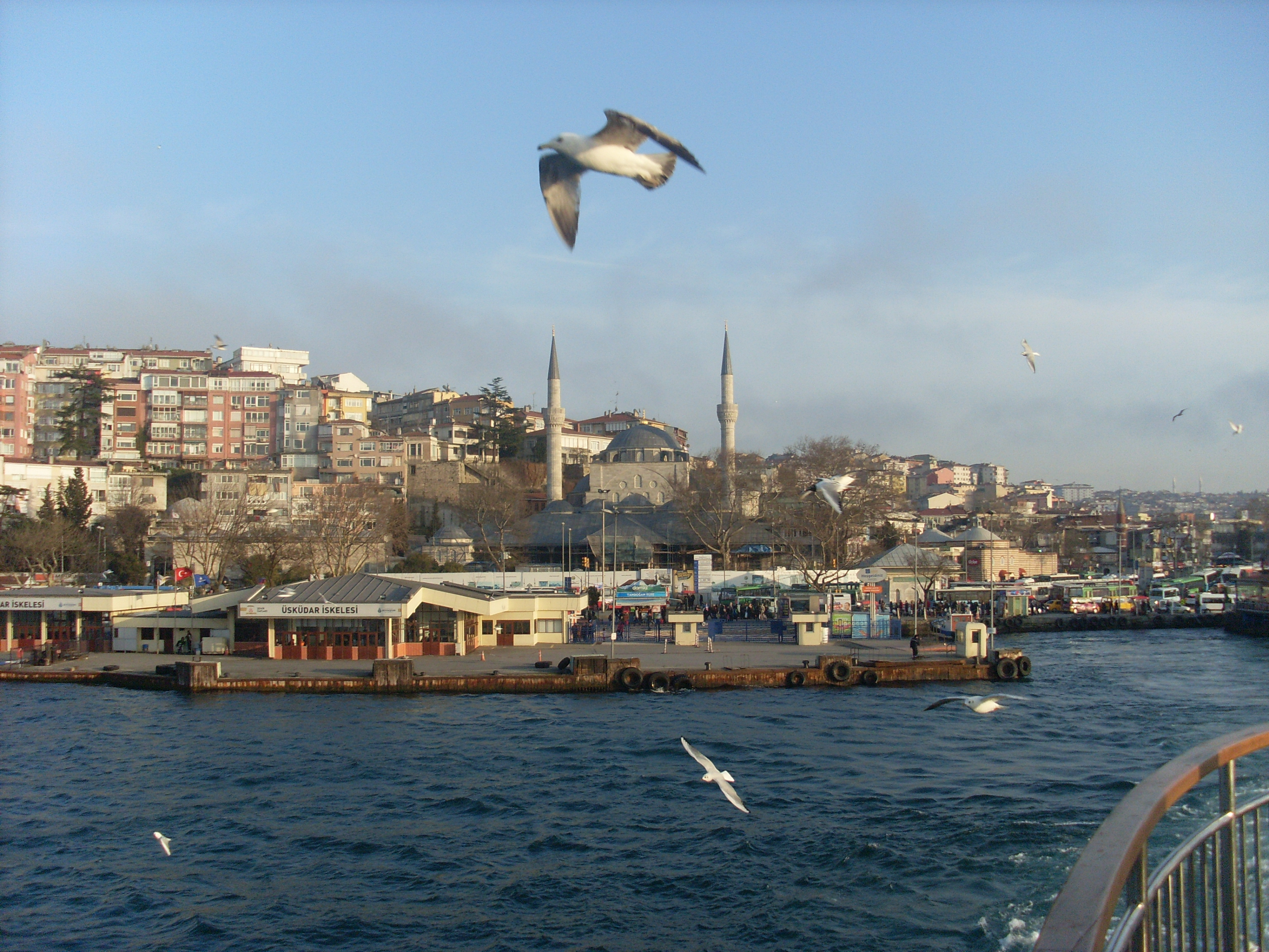 Mihrimah Sultan Mosque (Üsküdar)